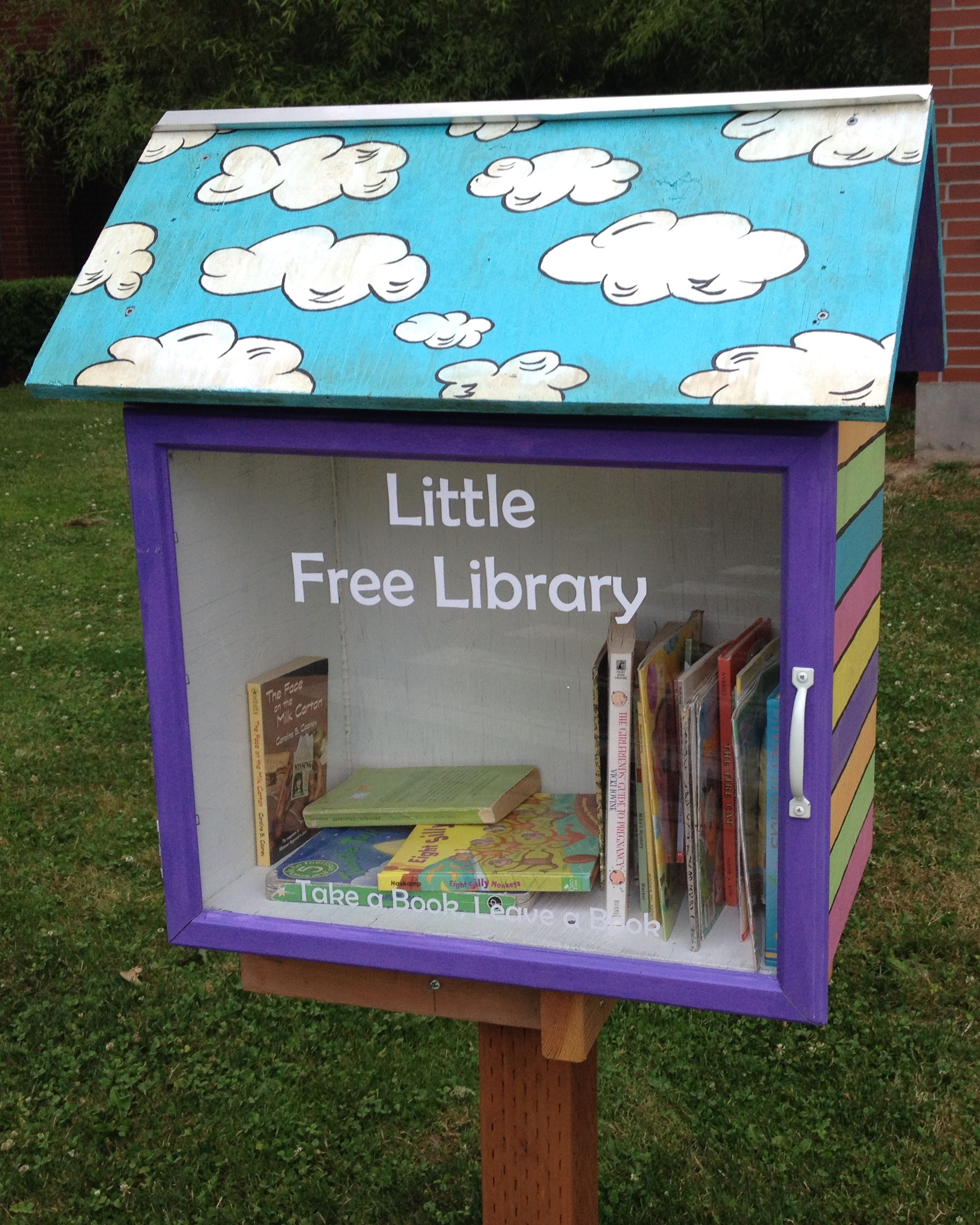 A brightly painted Little Free Library for the Early Learning Community at Pacific University in Berglund Hall, Forest Grove, Oregon, United States